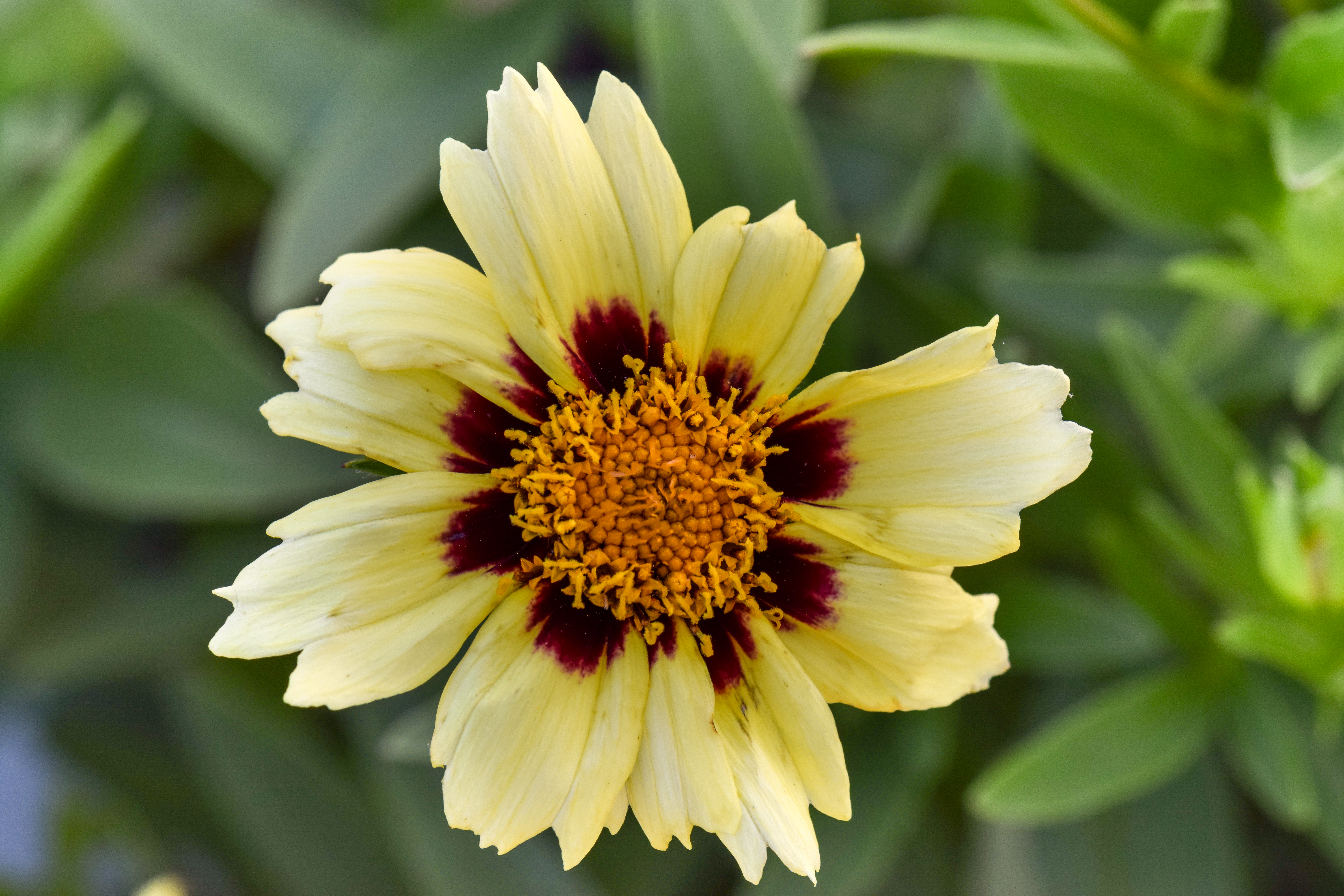 Coreopsis tinctoria cultivar Uptick Cream and Red (a Burgundy red). This cultivar has a significantly lighter yellow than most other cultivars.